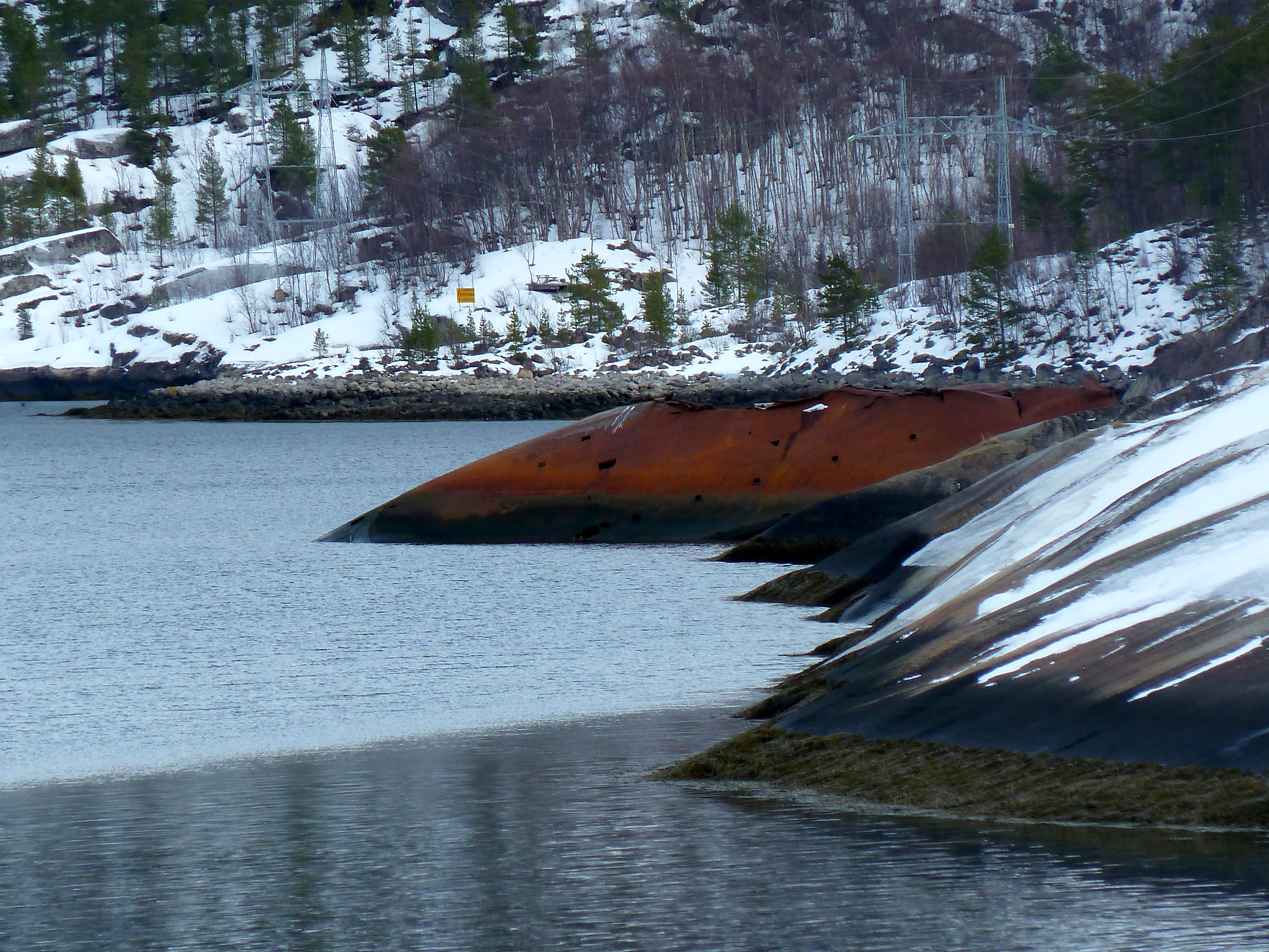 Wreck of Z2 «Georg Thiele» in Rombaksbotn, Narvik, Norway.